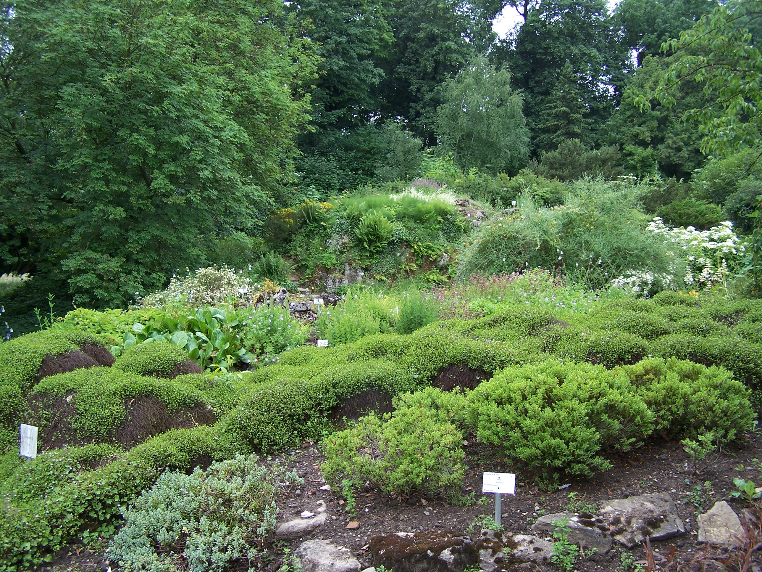 Old Botanical Garden of Göttingen University